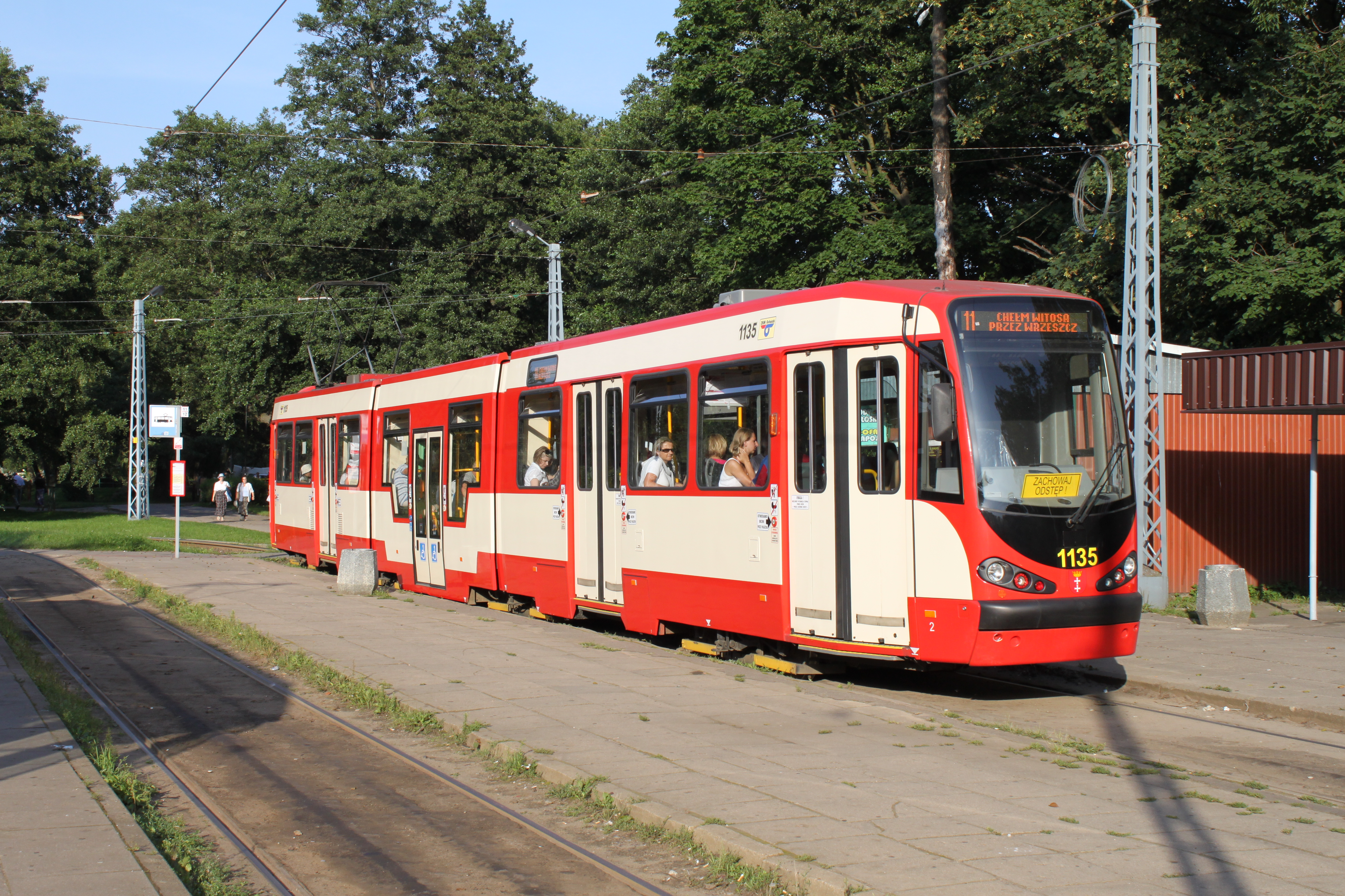 Tram Moderus Beta MF 01 (#1135) on line 11, Jelitkowo, Gdańsk